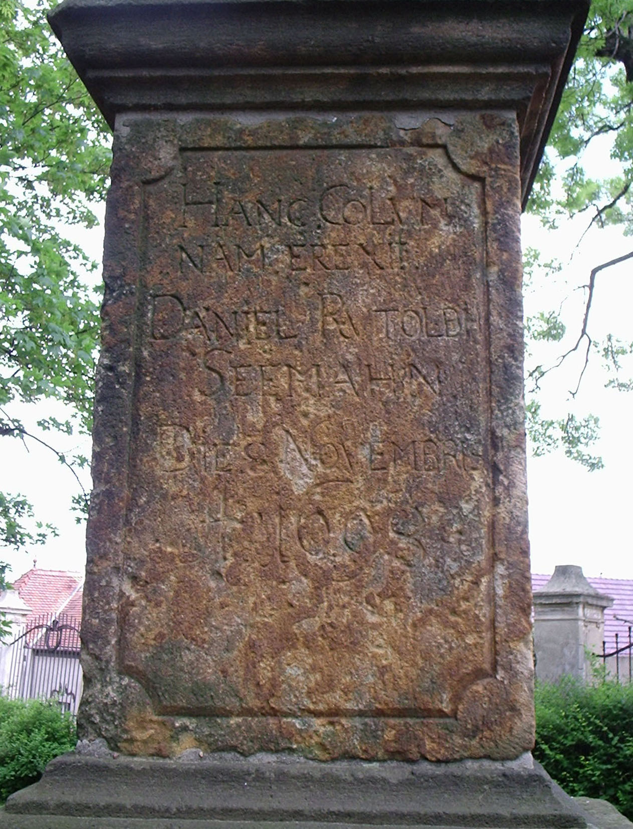 Epigraphy